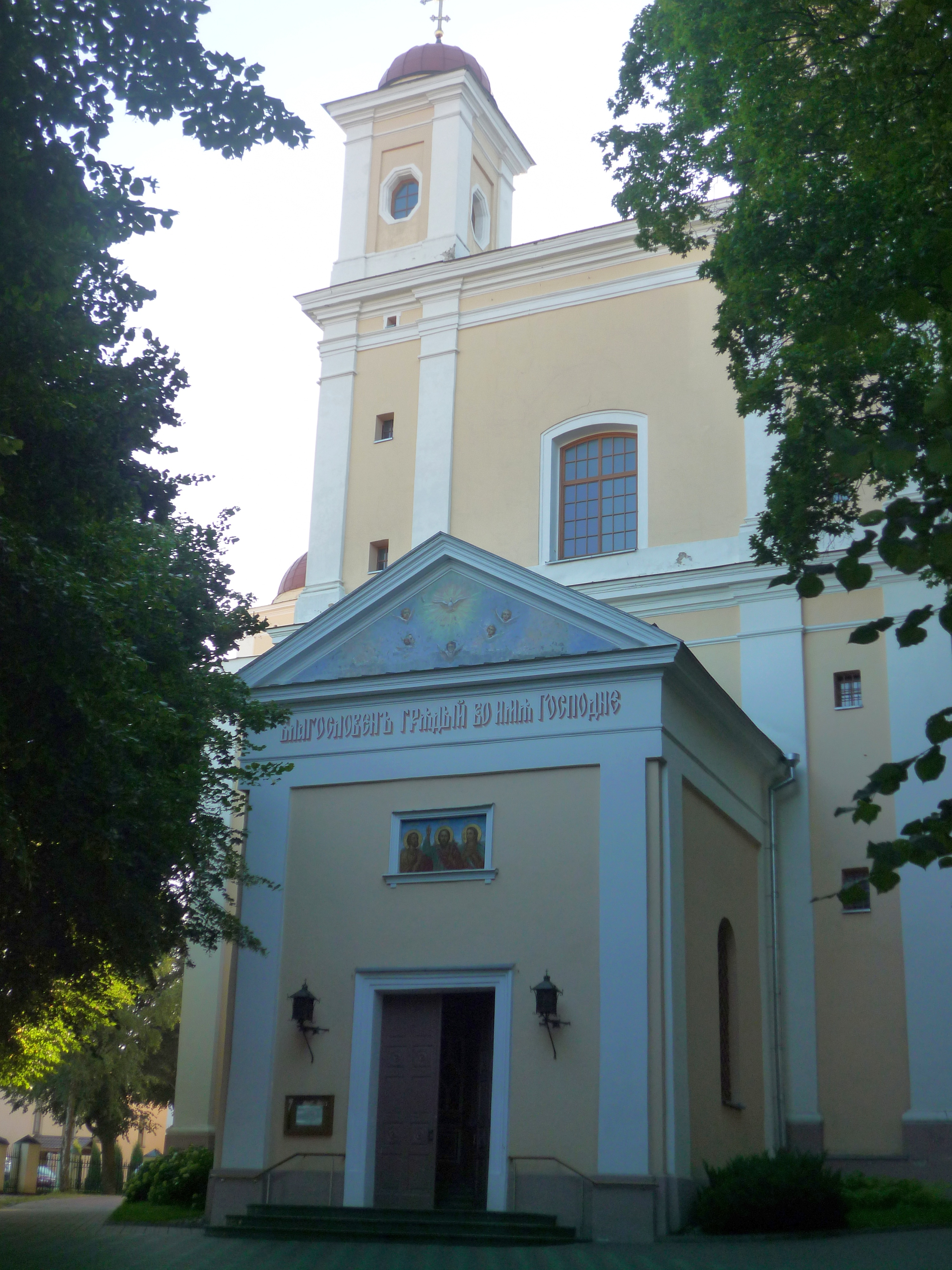 Russian-Orthodox Church of the Holy Spirit in Vilnius - facade